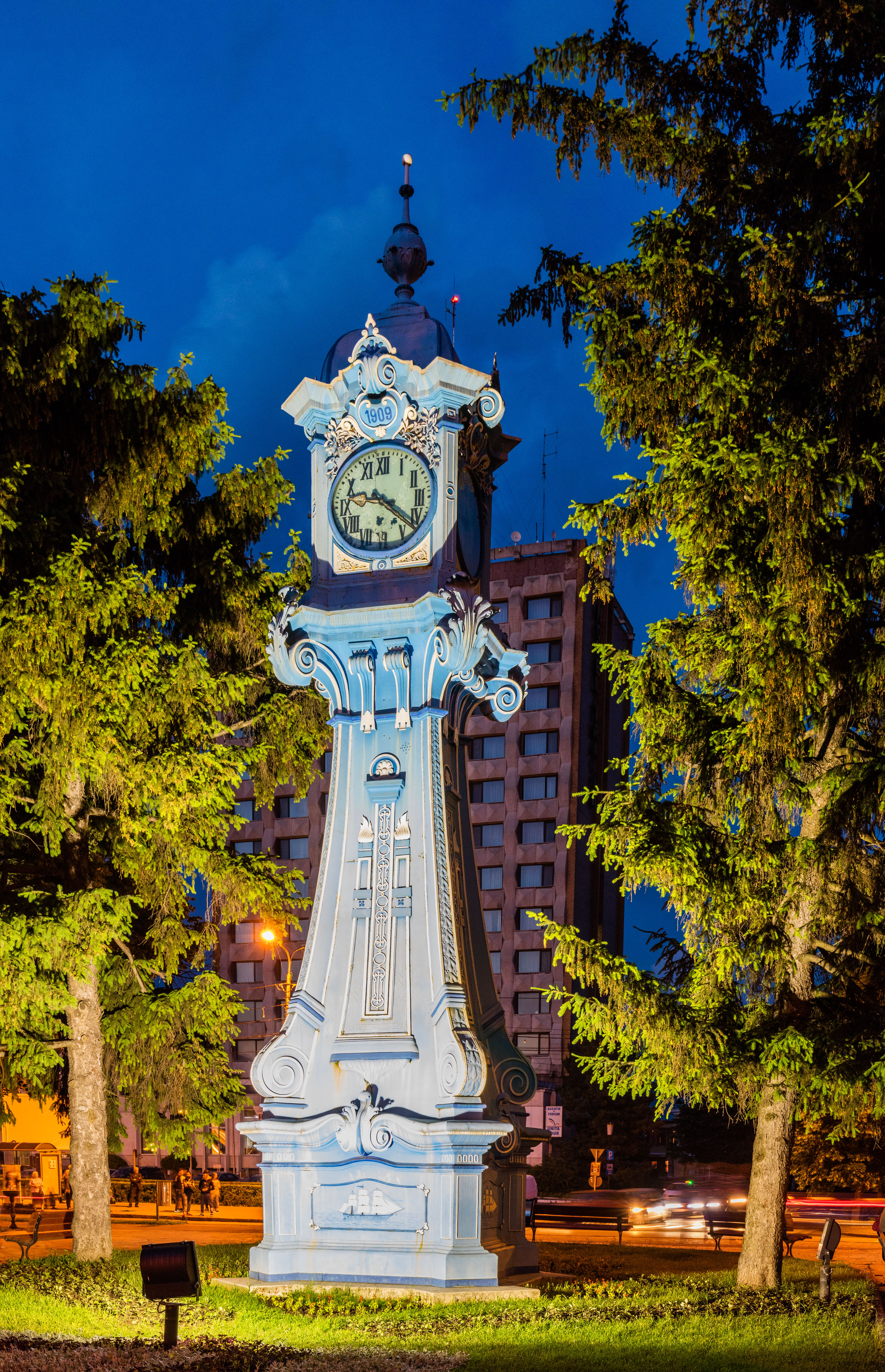 Braila Clock, Romania